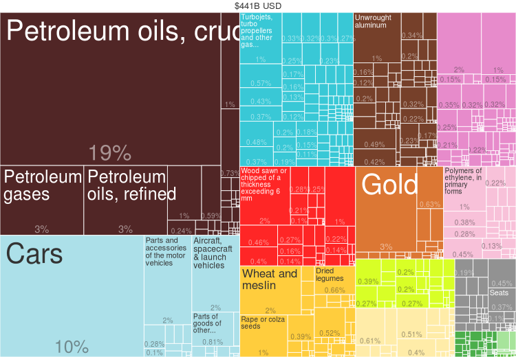 Treemap of Canada's goods exports in 2014